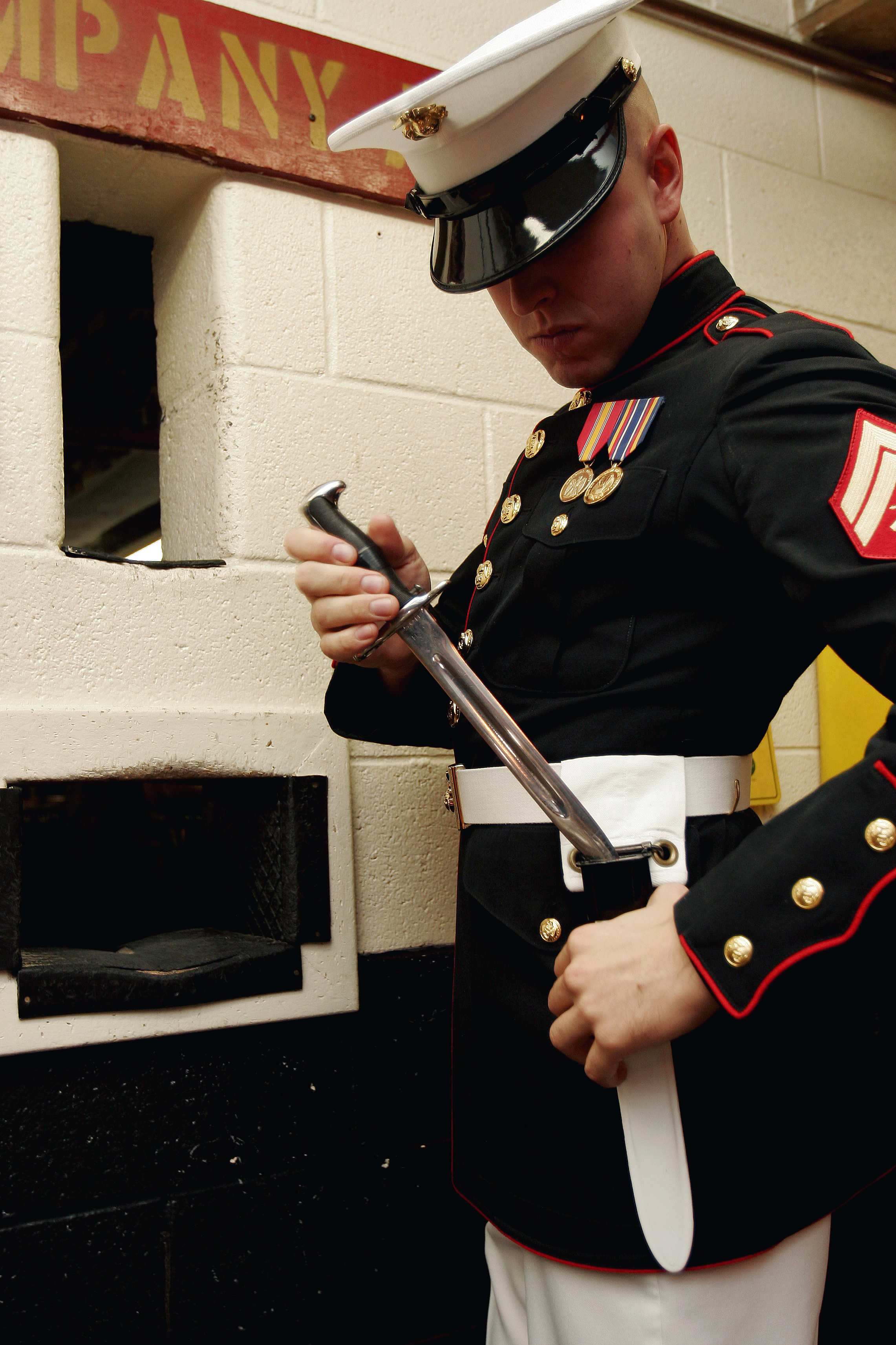 MARINE BARRACKS WASHINGTON � Cpl. Josh Leuthold, a 22-year-old Reno, Nev., native, sheaths a M-1 Garand rifle bayonet after drawing his gear from the armory for a morning drill practice session.